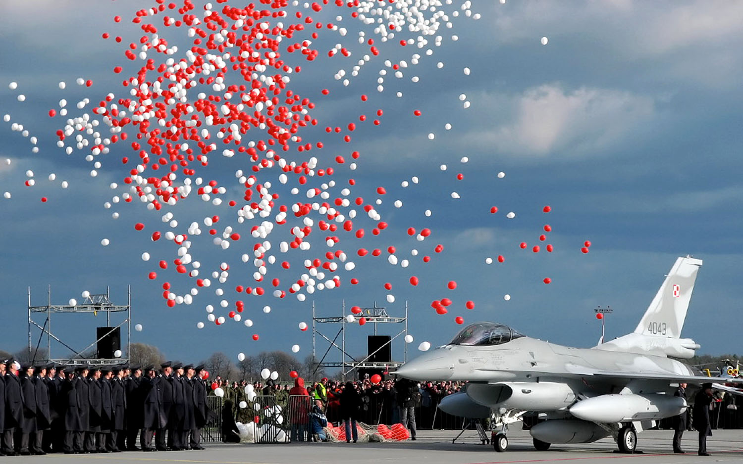 Polish air force officials welcome the first of 48 F-16 Fighting Falcons Nov. 9 during an arrival ceremony at the 31st Air Base at Poznan, Poland.